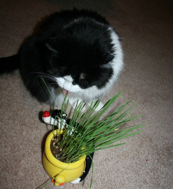 cat eating Chia cat grass